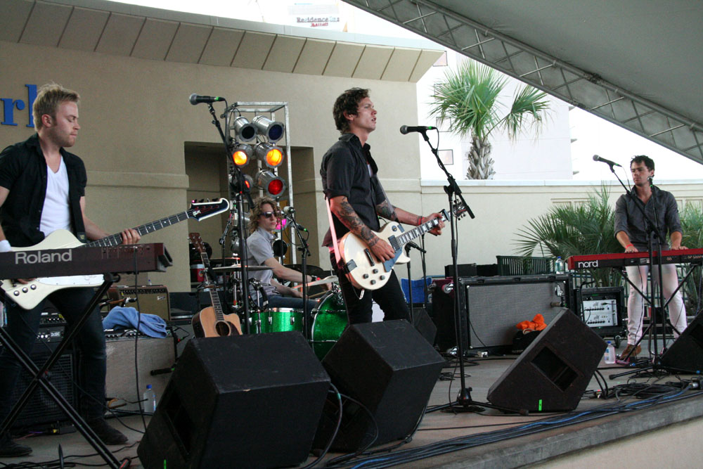 Wild Light opening for The Wallflowers